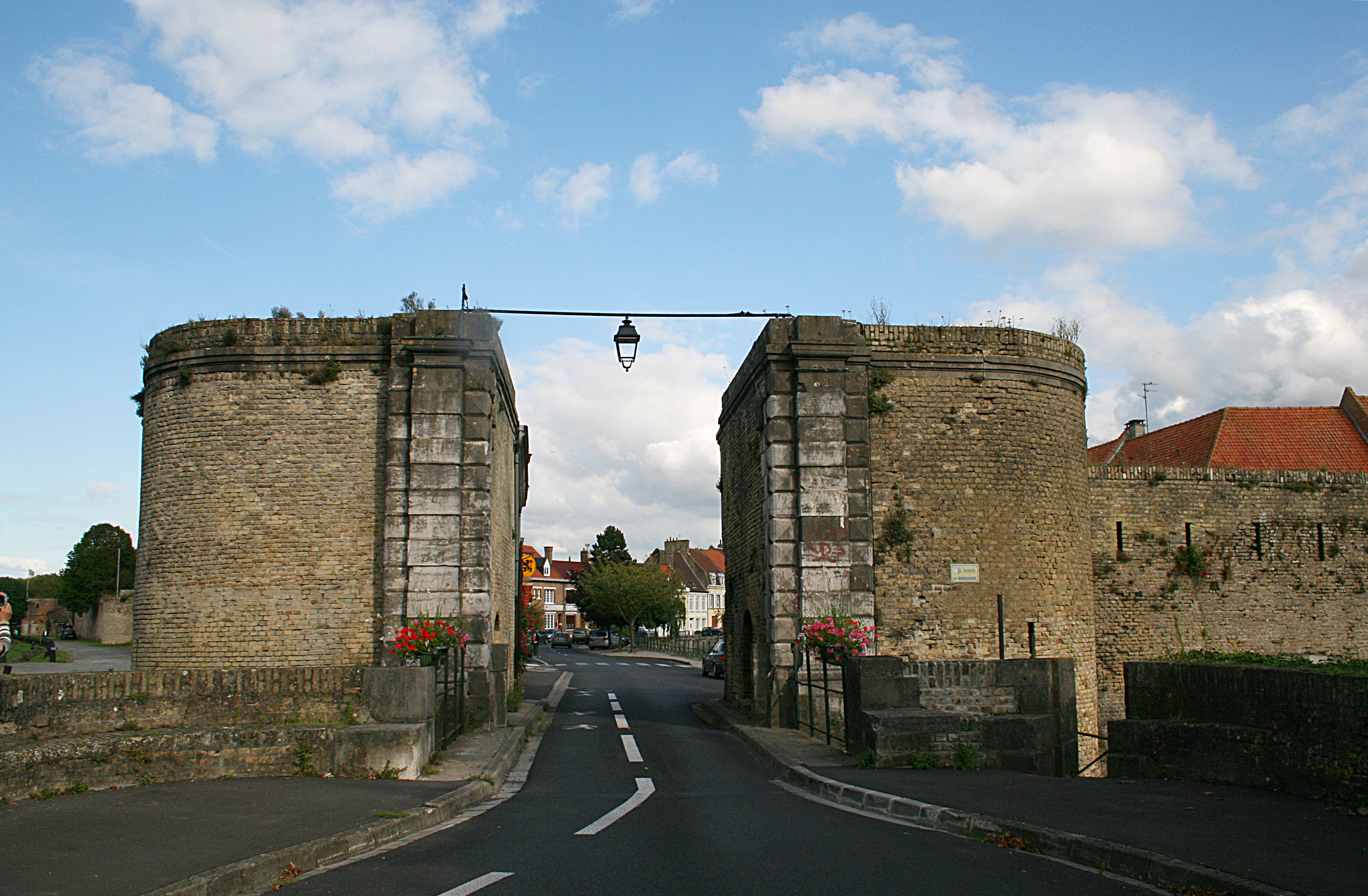 Bergues (Nord) France, the door of Dunkirk - Fortification of the XV century improoved in 1679 by Sébastien Le Prestre de Vauban.